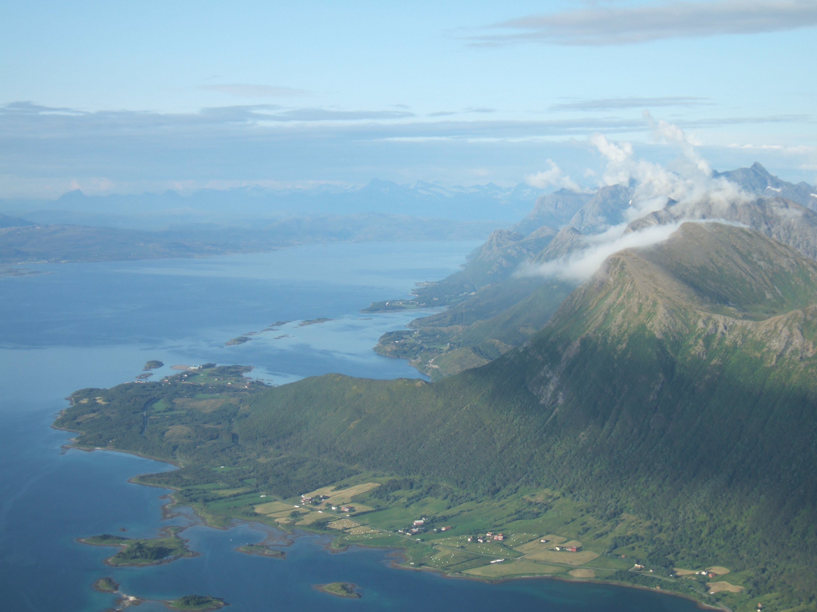 Skjettenfjorden in Steigen, Nordland, Norway.